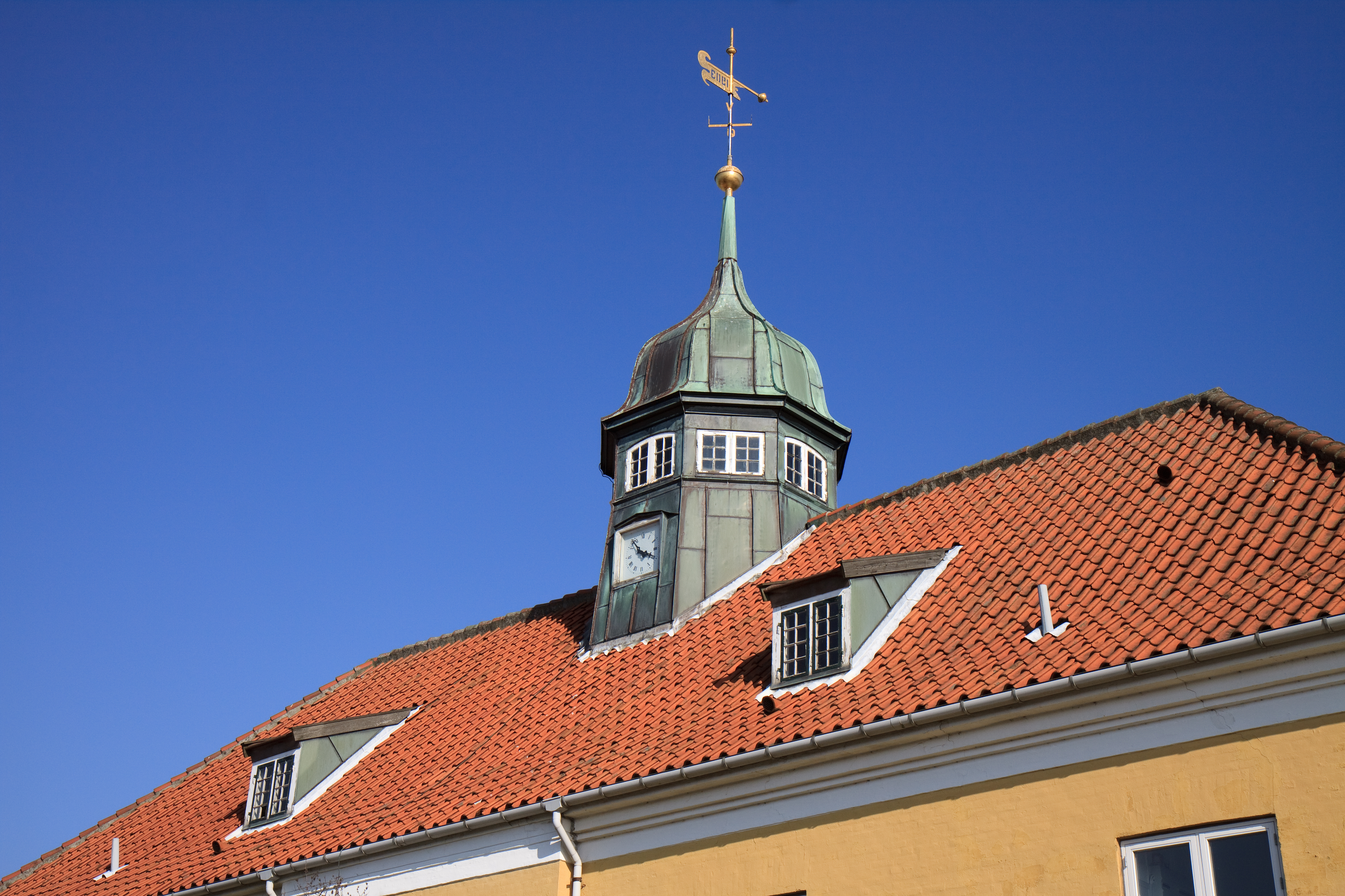 The main Building at slusen in the South Harbour of Copenhagen, Denmark